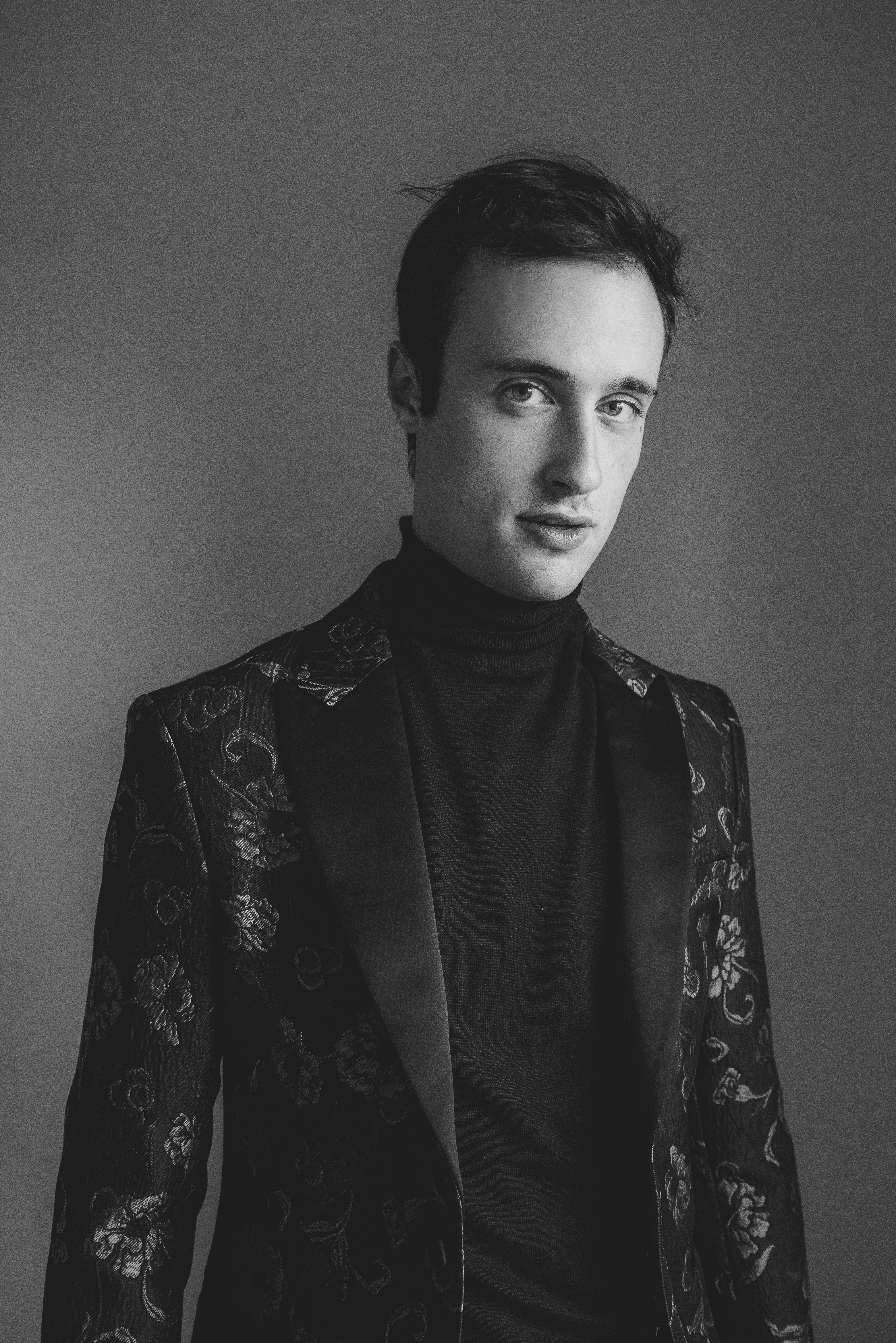 Portrait of the composer, Logan Nelson.